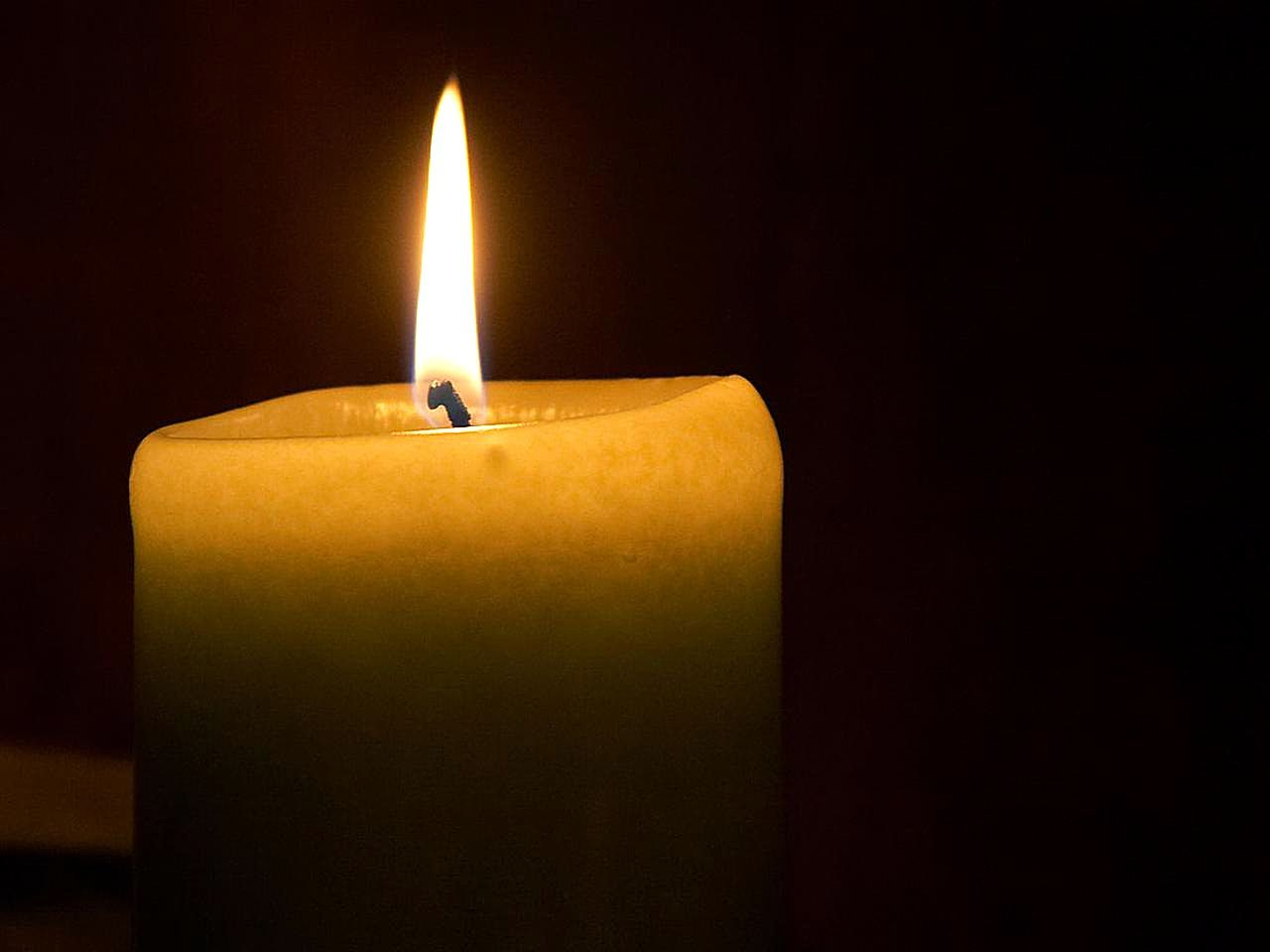 Image title: Candle flame Image from Public domain images website